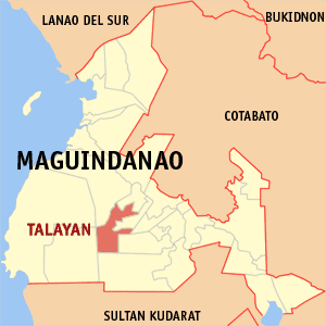 Map of the Maguindanao showing the location of Talayan